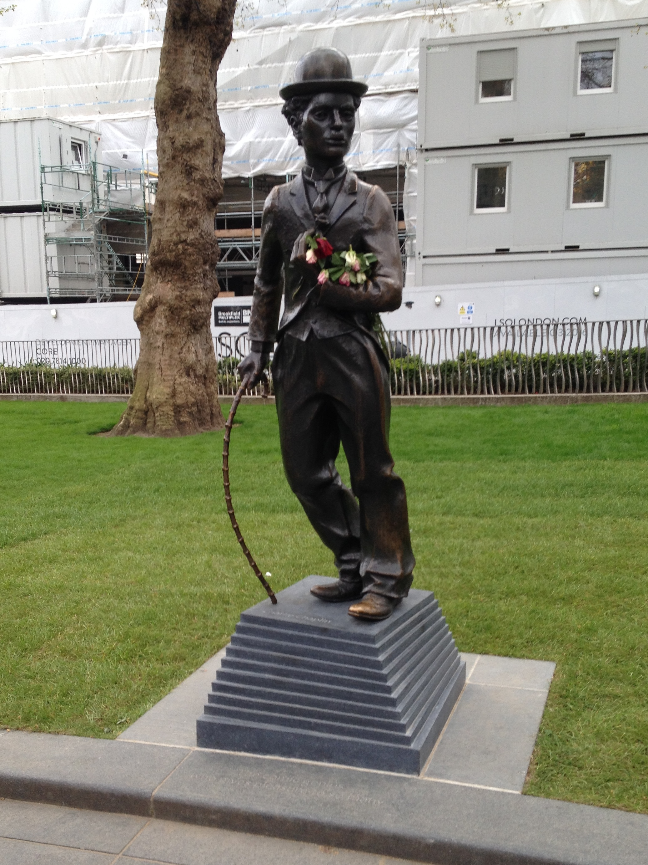 Statue of Charlie Chaplin in Leicester Square, London